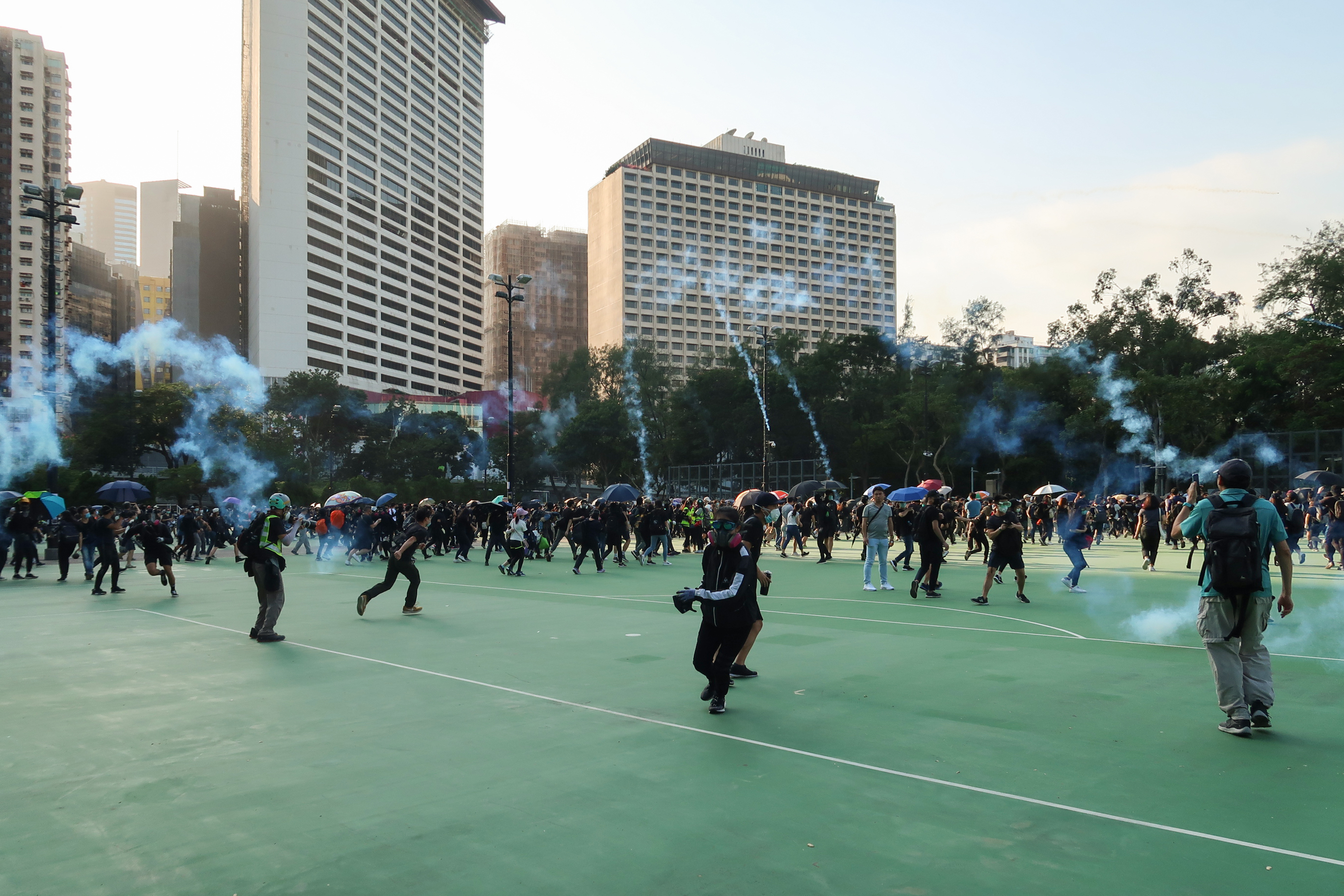 Police force release Tear gas inside Victotia Park